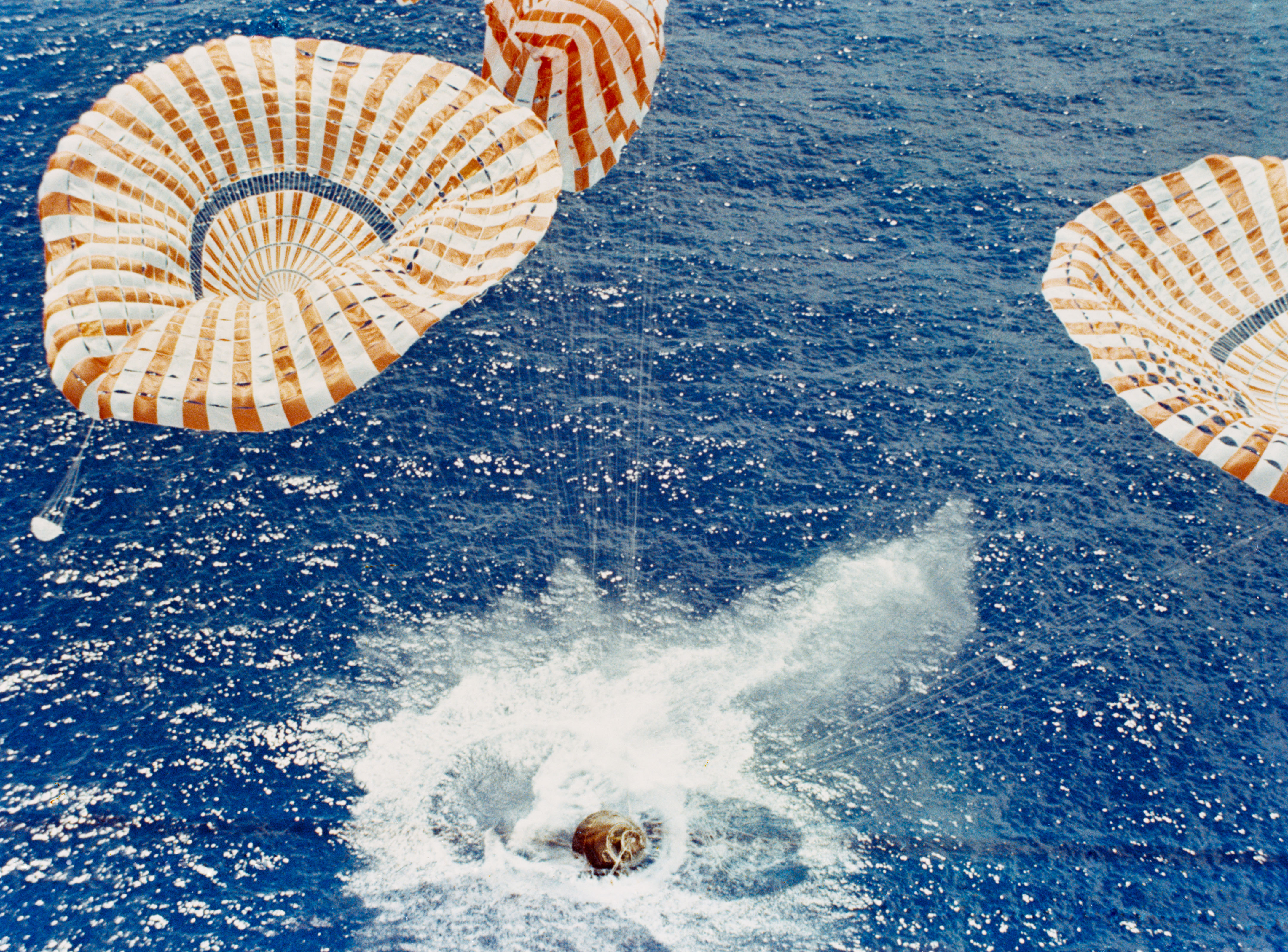 Apollo 15 Command Module splashdown. The Apollo 15 Command Module (CM), with astronauts David R. Scott, commander; Alfred M. Worden, command module pilot; and James B. Irwin, lunar module pilot, aboard safely touches down in the mid-Pacific Ocean to conclude a highly successful lunar landing mission. Although causing no harm to the crew men, one of the three main parachutes failed to function properly. The splashdown occurred at 3:45:53 p.m. (CDT), Aug. 7, 1971, some 330 miles north of Honolulu, Hawaii. The three astronauts were picked up by helicopter and flown to the prime recovery ship, USS Okinawa, which was only 6 1/2 miles away.